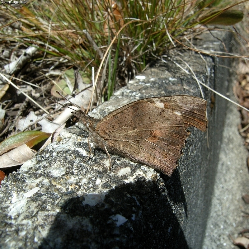 Libythea lepita Snout Butterfly or Nettle-tree Butterfly Échancré テングチョウ Location Hinase, Bizen city, Okayama pref. Copyright OpenCage